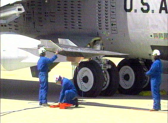 NASA technicians preparing the second X-43A prior to launch.